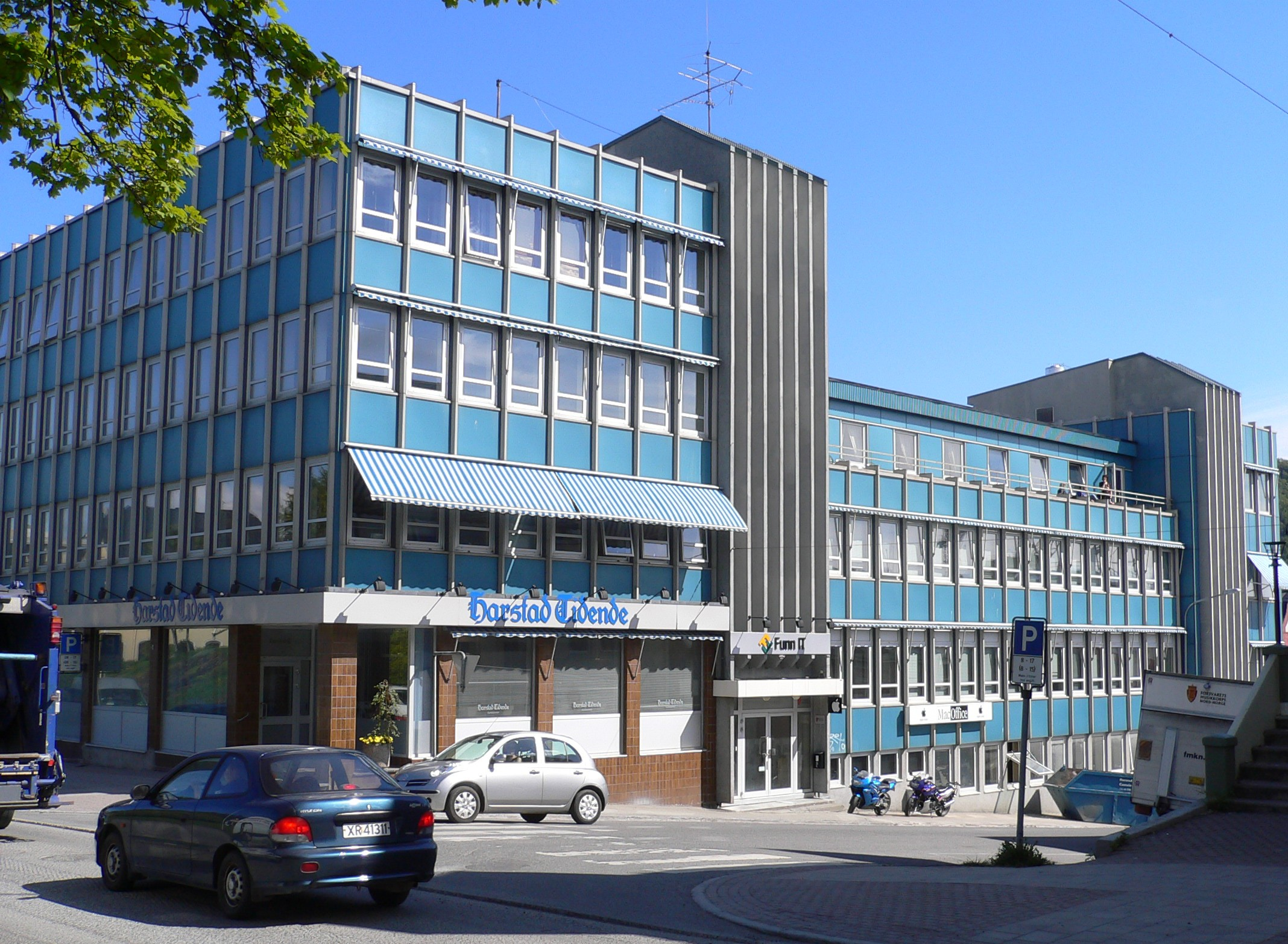 Storgata 11 in Harstad, Norway. The building belongs to the newspaper "Harstad Tidende".